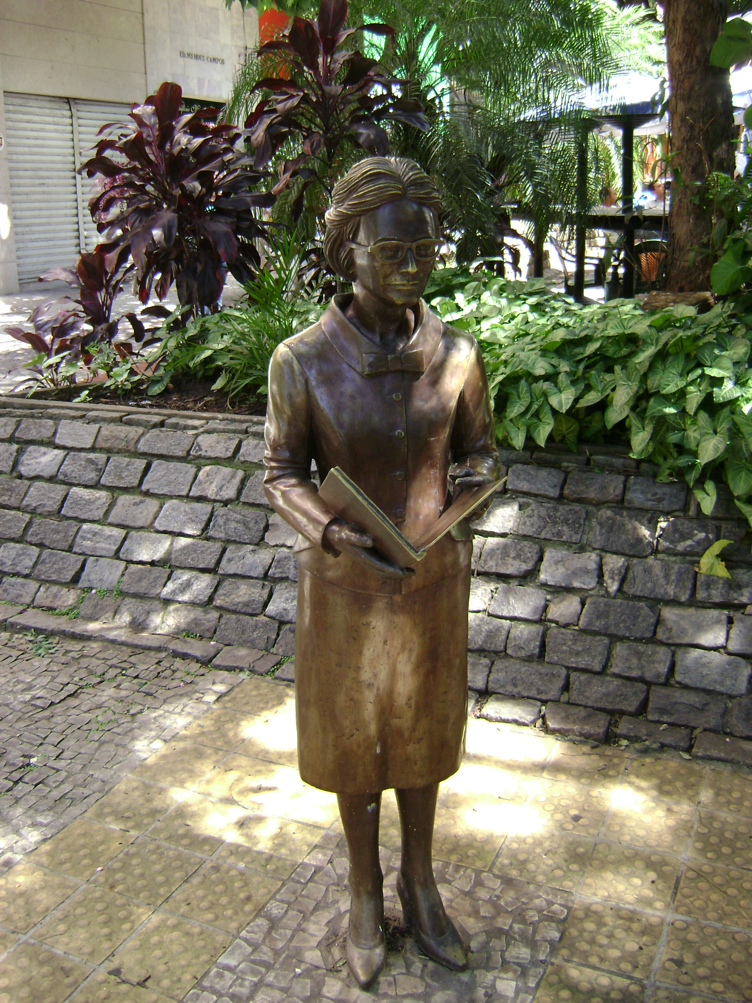 Estátua da poetisa Henriqueta Lisboa, na Praça da Savassi, Belo Horizonte.